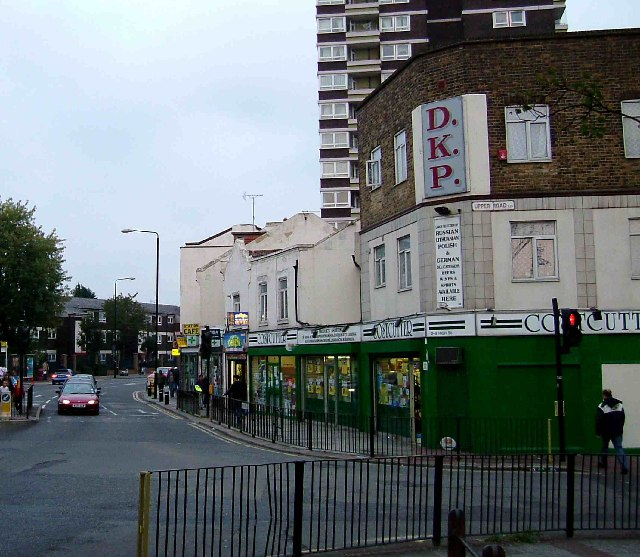 Plaistow High St. The picture shows the junction of High St Plaistow and Upper Road. The shop on the corner indicates the changing ethnic mix here, it contains a Russian/Lithuanian delicatessen. The photo was taken looking southeast along the High St.